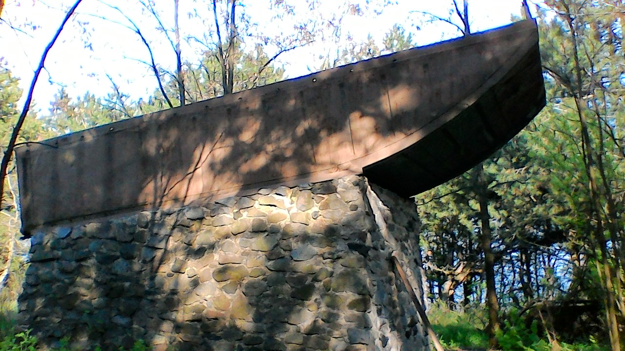 Monument - WWII pontoon near the village Grigorovka, Ukraine